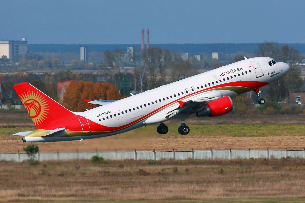 Air Bishkek Airbus A320 taking off at Novosibirsk Airport